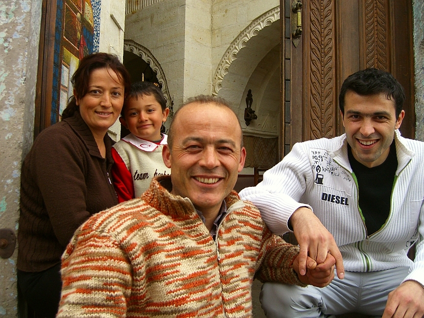 The friendly people of Cappadocia. Goreme, Central Turkey. Photo Credit Jan Cadoret